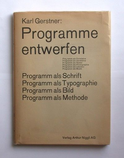 Cover of the first german edition of Programme Entwerfen, published 1963/1964 by Arthur Niggli in Switzerland.